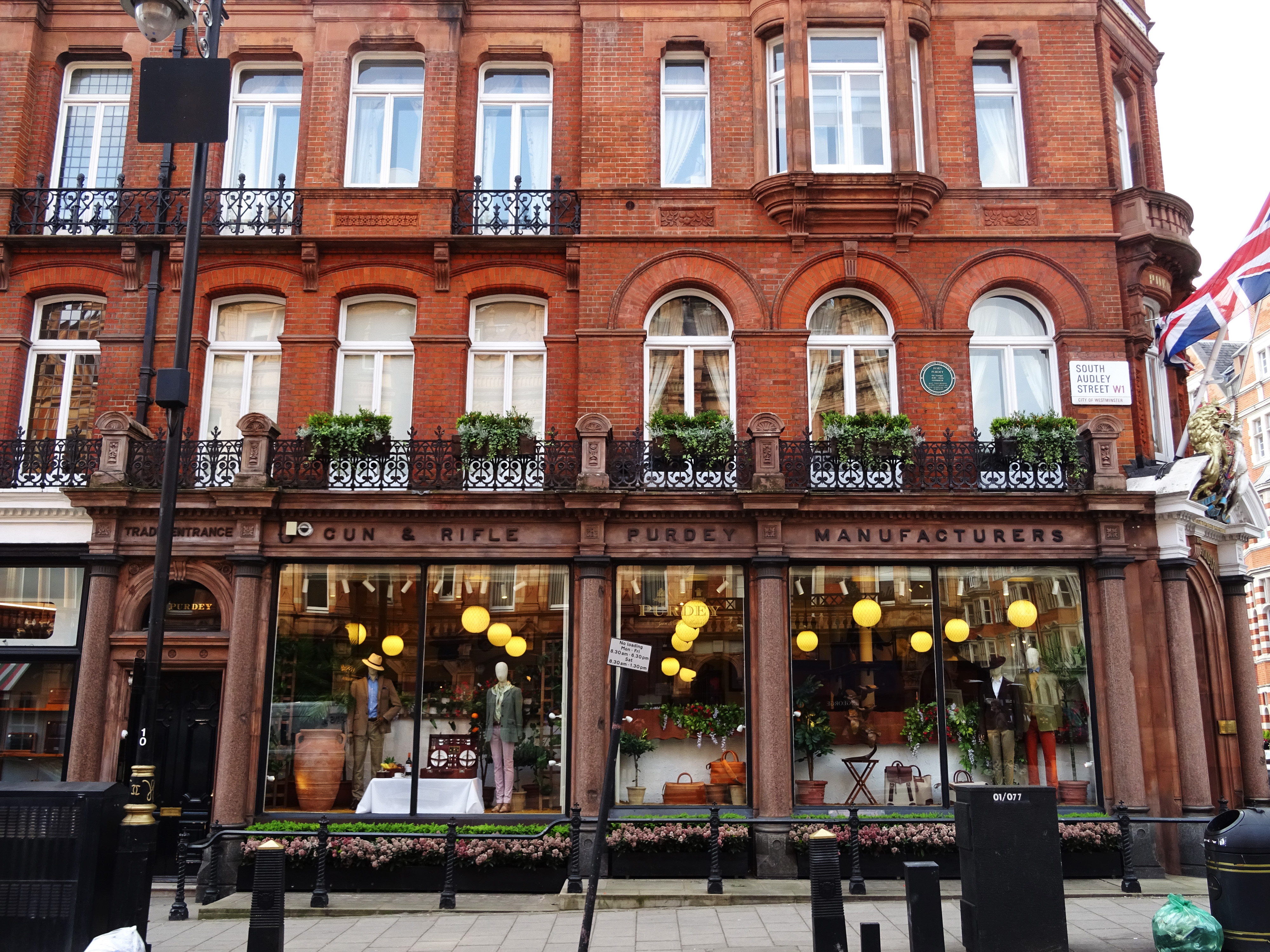 "James Purdey the Younger 1828-1909 Gunmaker built these premises in 1880 to house his new showrooms and workshops" - 57-58 South Audley Street, Mayfair, London W1K 2ED